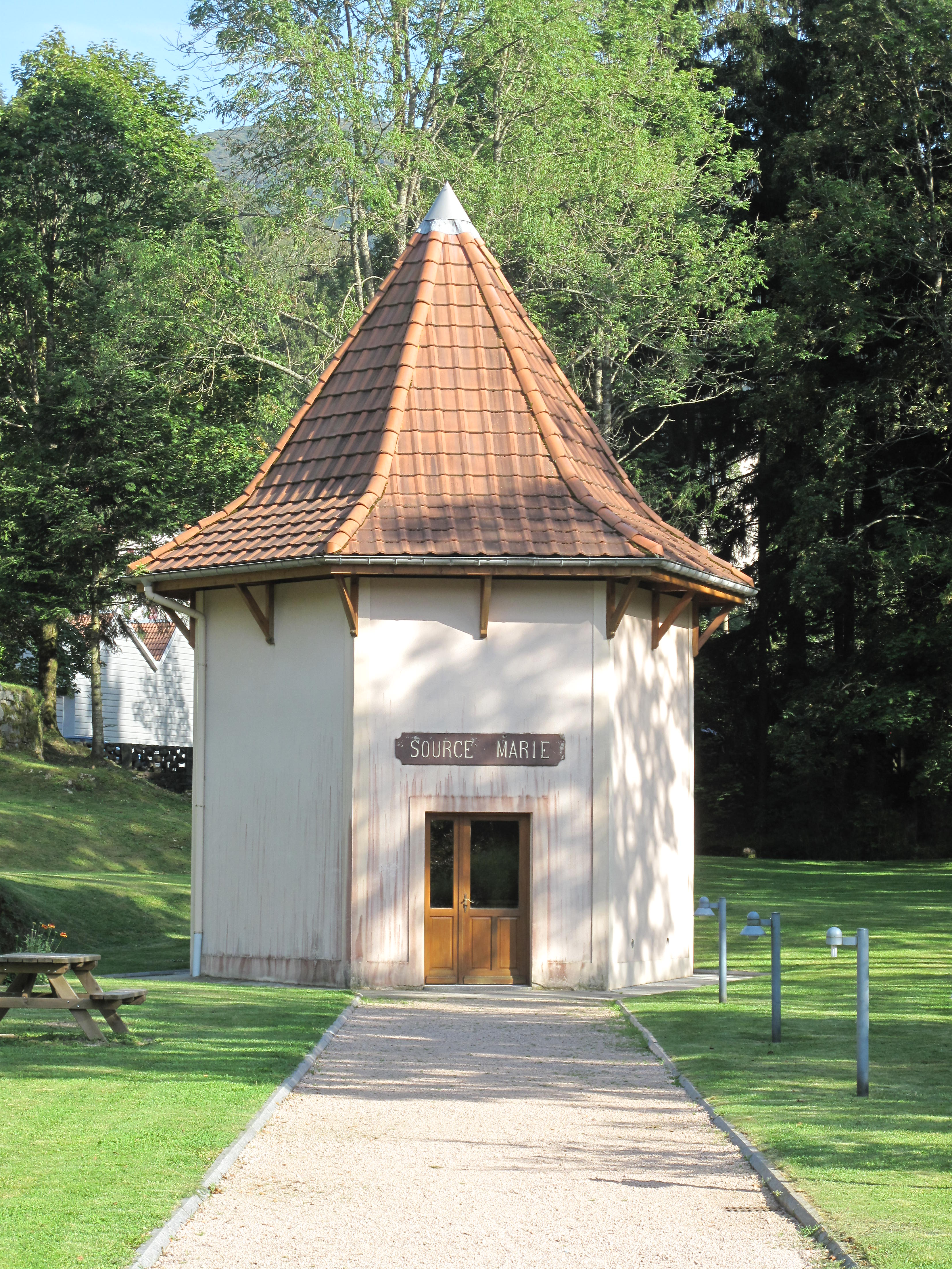 The kiosk of the spring Source Marie in Bussang (Vosges, France).